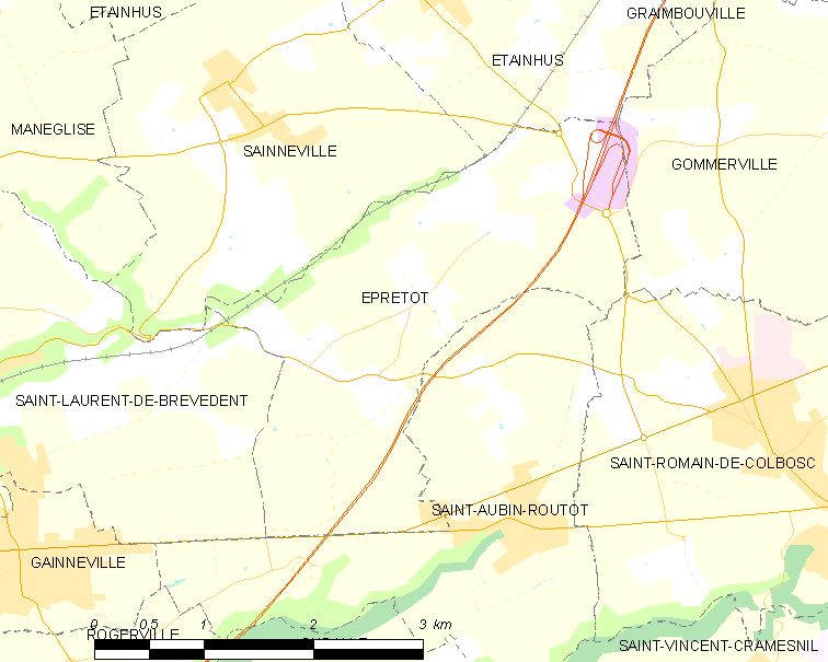 Map of French municipality Épretot